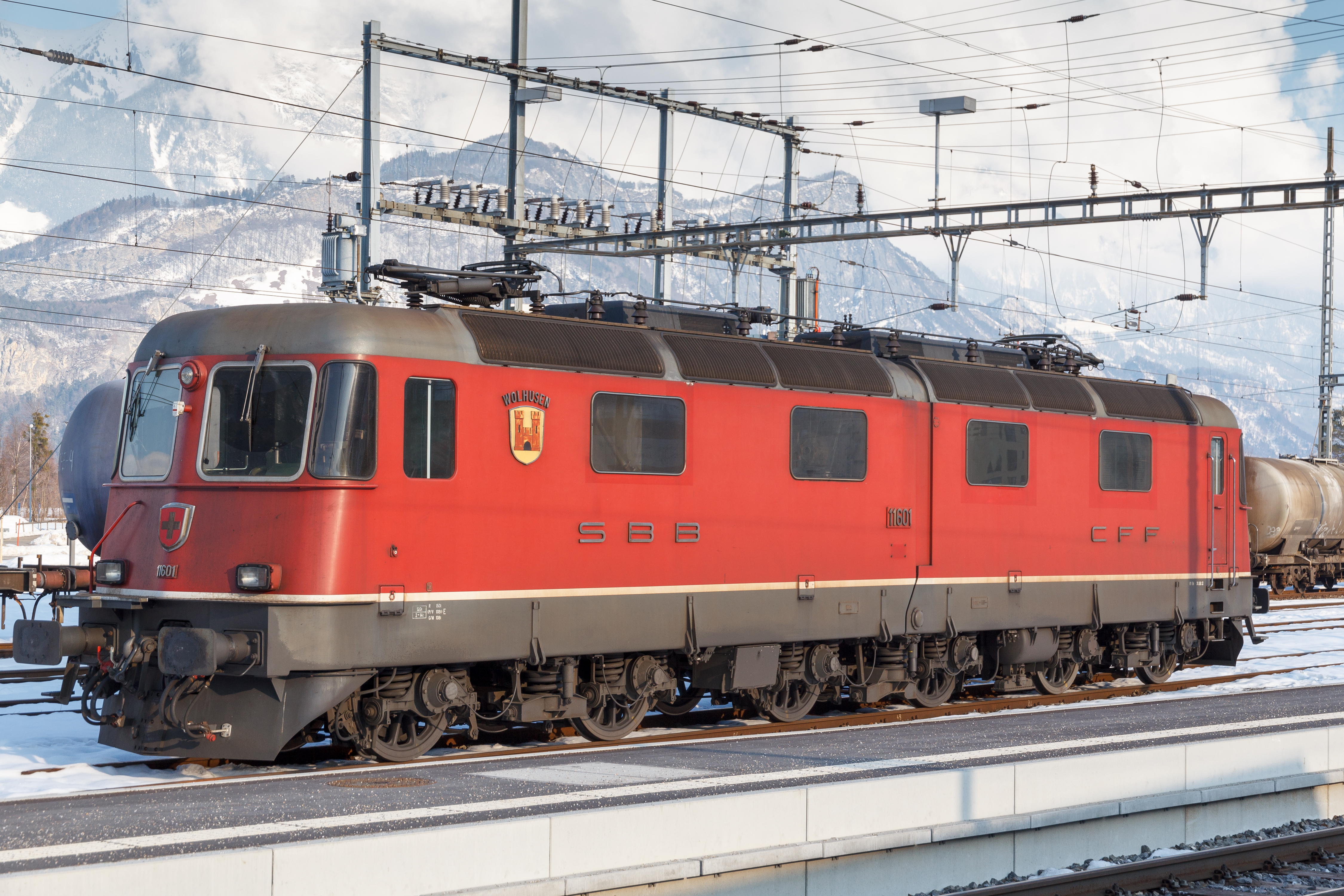 SBB-CFF-FFS Re 6/6 (Re 620) 11601 "Wolhusen" (Class Prototype) in Buchs SG.